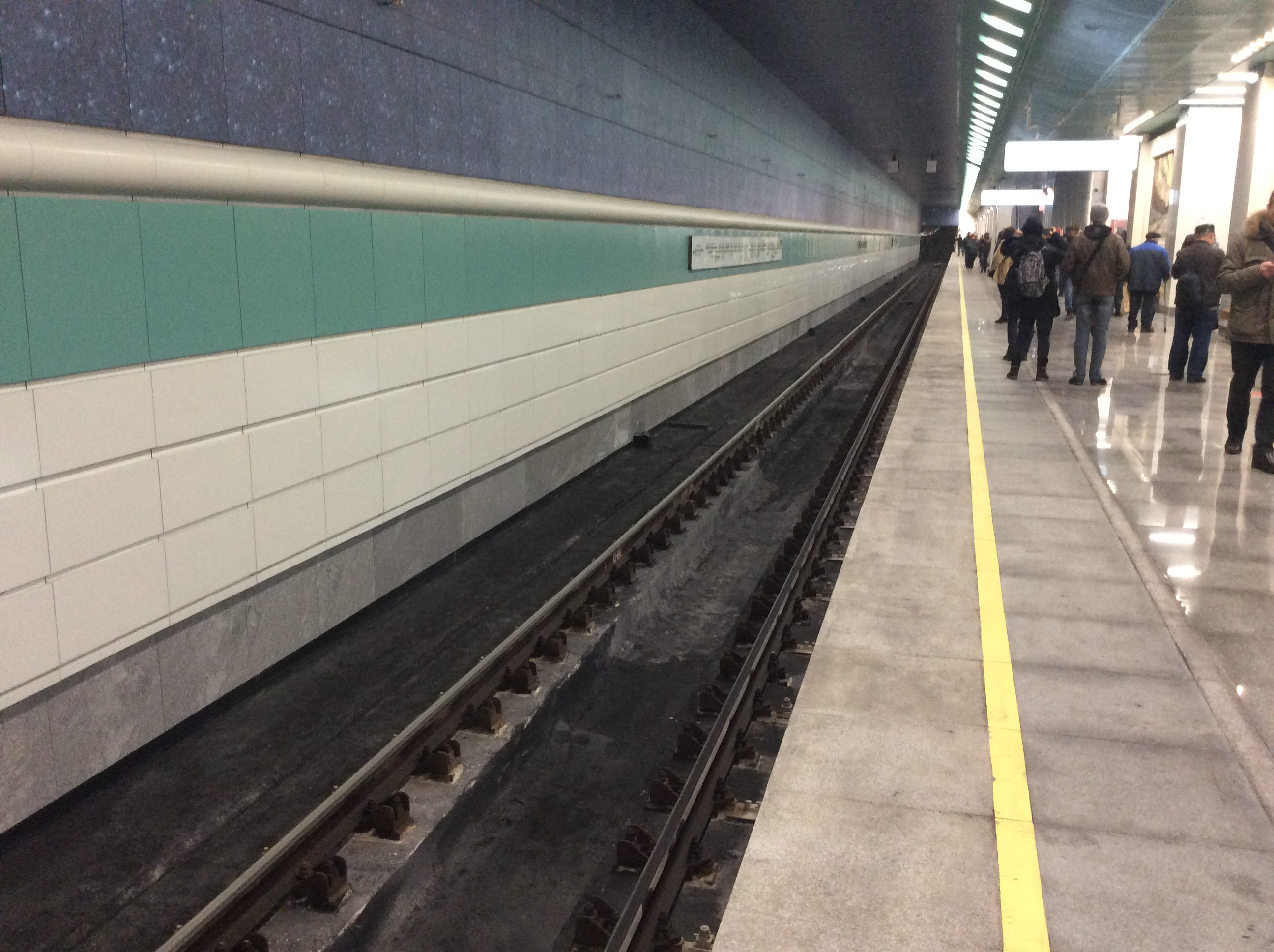 Belomorskaya station (Moscow Metro), the opening day.